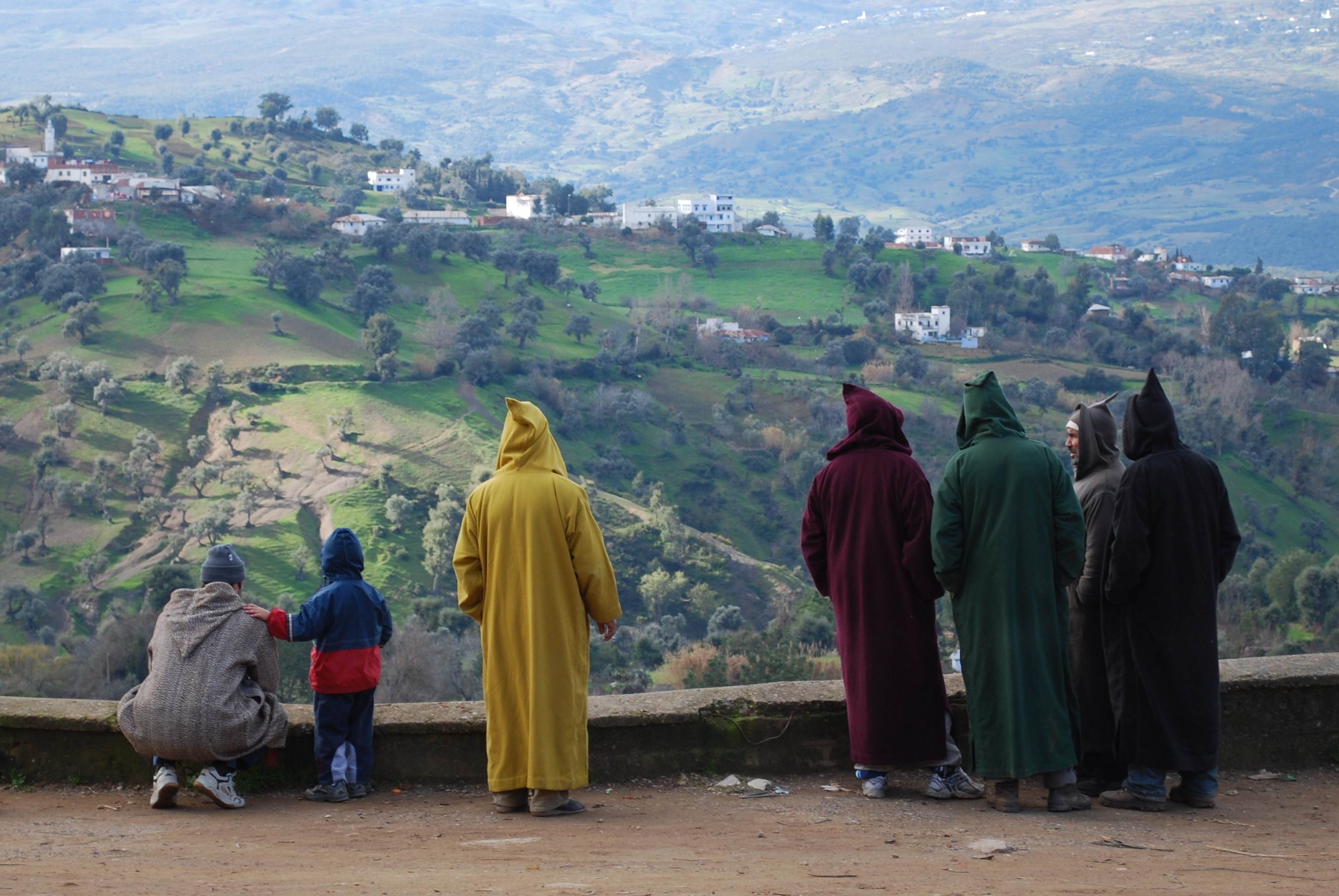 Men in djellabas at Chefchaouen souk (weekly market), North Morocco